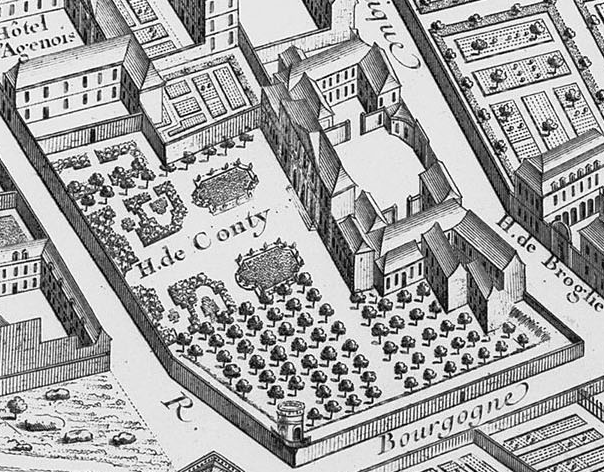 The grounds of the Hôtel de Conti (built by Louise Élisabeth de Bourbon, present Hôtel de Brienne) from the Turgot map of Paris circa 1737